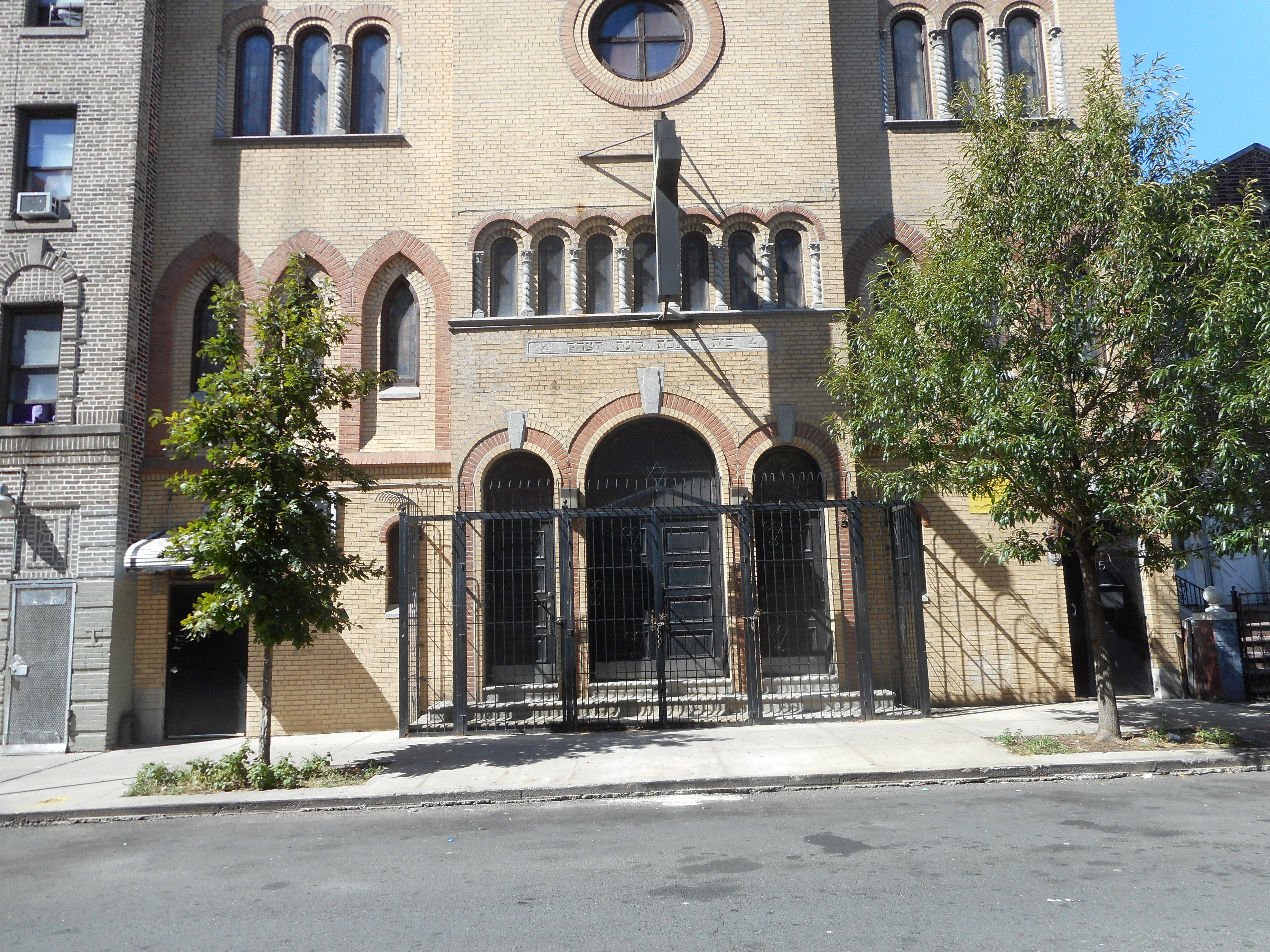 Chevra Linas Hazedek Synagogue of Harlem and the Bronx, in the Soundview section of The Bronx. Further details to come later.